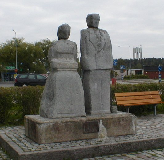 Statue in centre of Stenhamra, suburb of Stockholm, Sweden